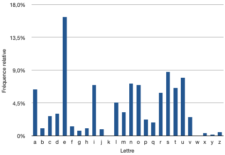 Histogram that illustrates the letter frequency analysis of a french text.